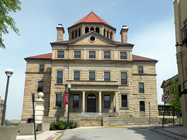 Picture of the Washington County Jail on Cherry Street in Washington, Pennsylvania, on May 1, 2010. The jail was designed by Frederick J. Osterling and built in 1899, and is listed on the National Register of Historic Places.